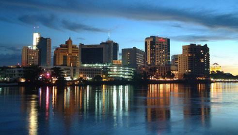 Mike